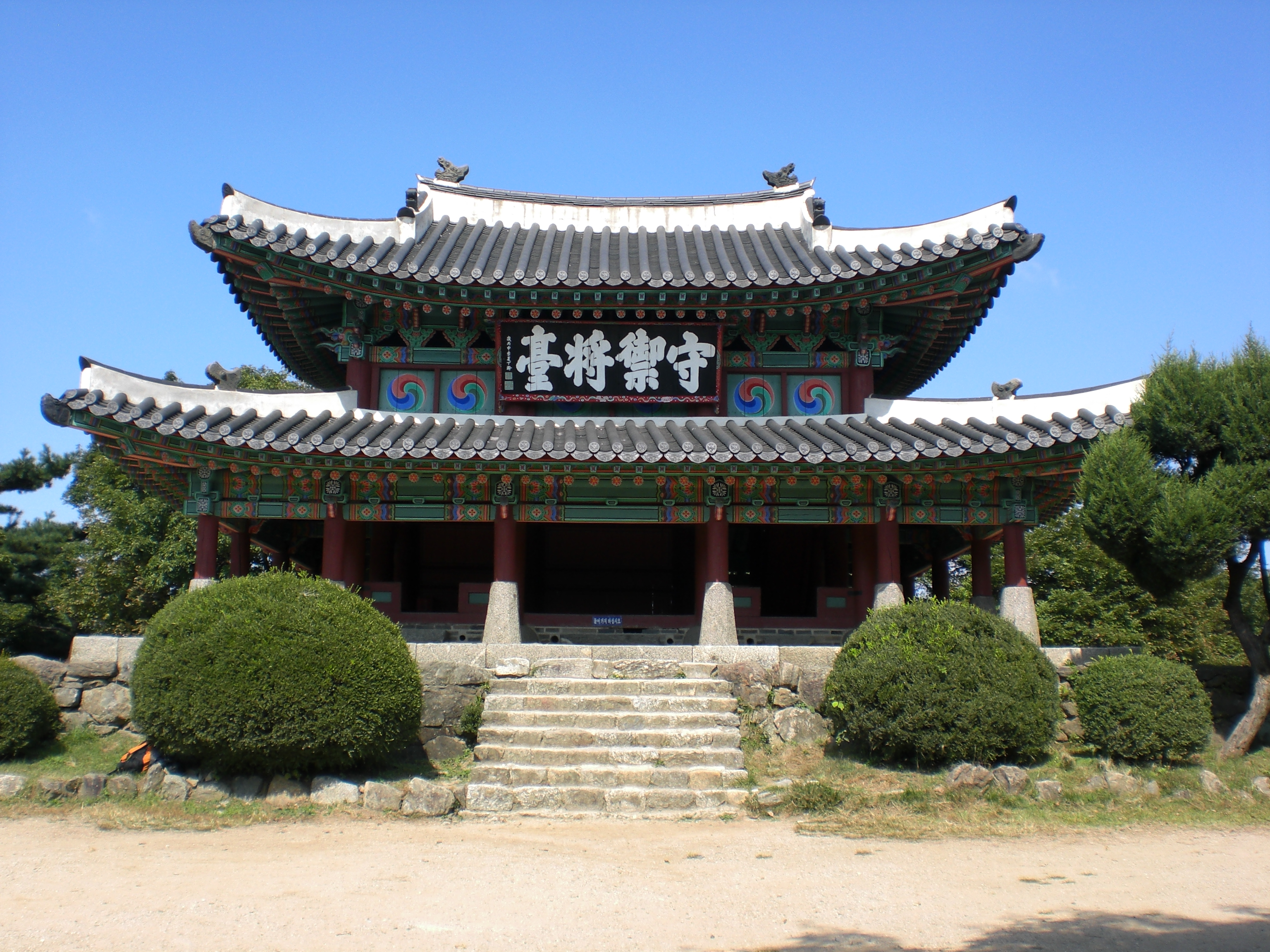 Sueojangdae command post (西將台) at Namhansanseong fortress near Seoul, South Korea